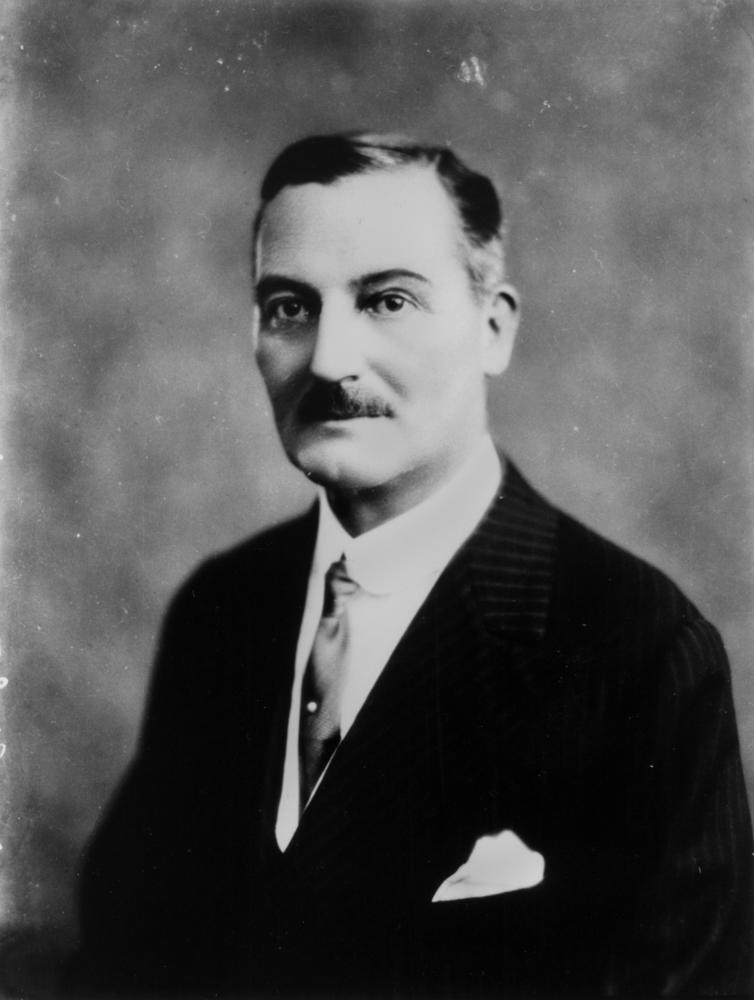 Sir Leslie Wilson, Governor of Queensland